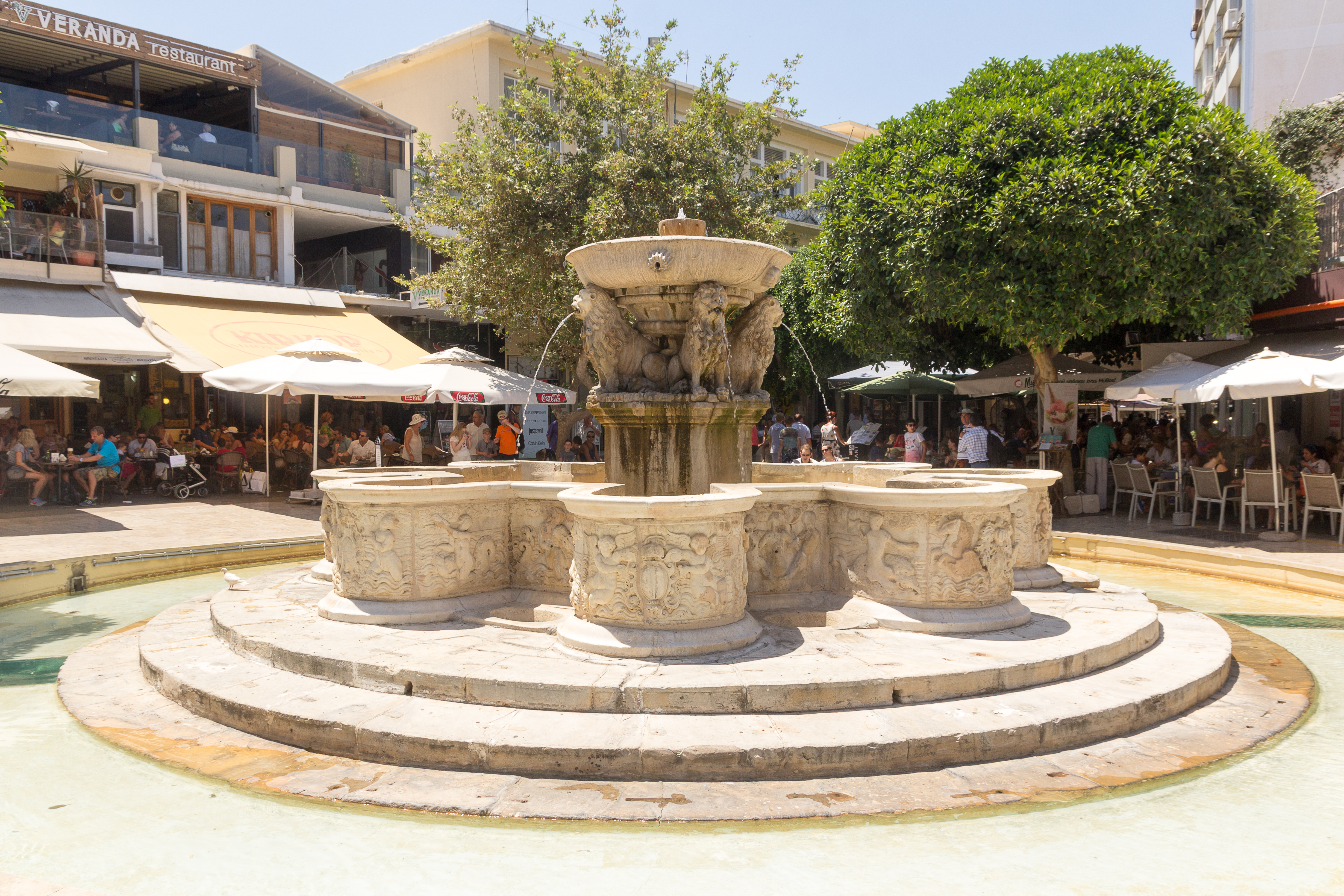 Morozini Fountain«Κρήνη Μοροζίνι»